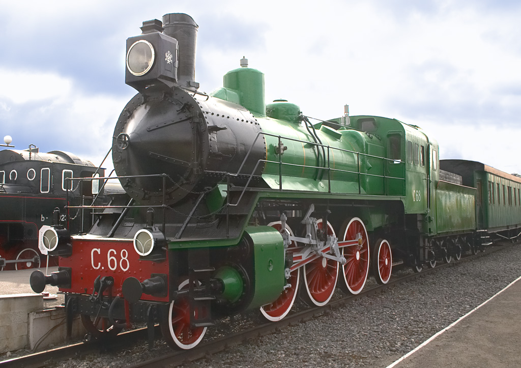 Steam locomotive S overview, St. Petersburg rail museum, Russia